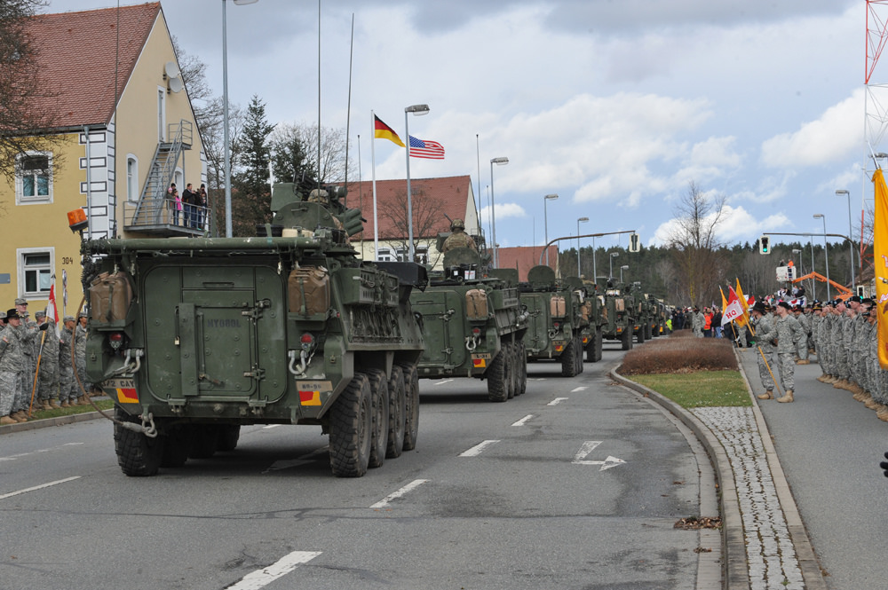 'Welcome Home' ceremony. (Photo by Gertrud Zach, Training Support Center Grafenwoehr)